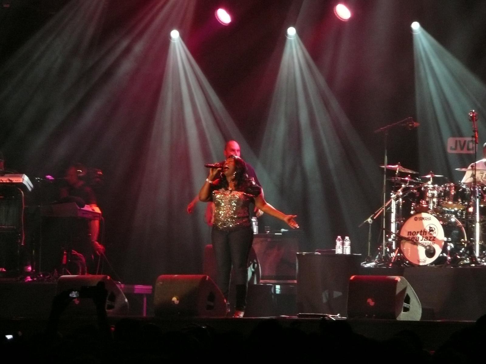 Angie Stone on "Nile", first day of the festival.